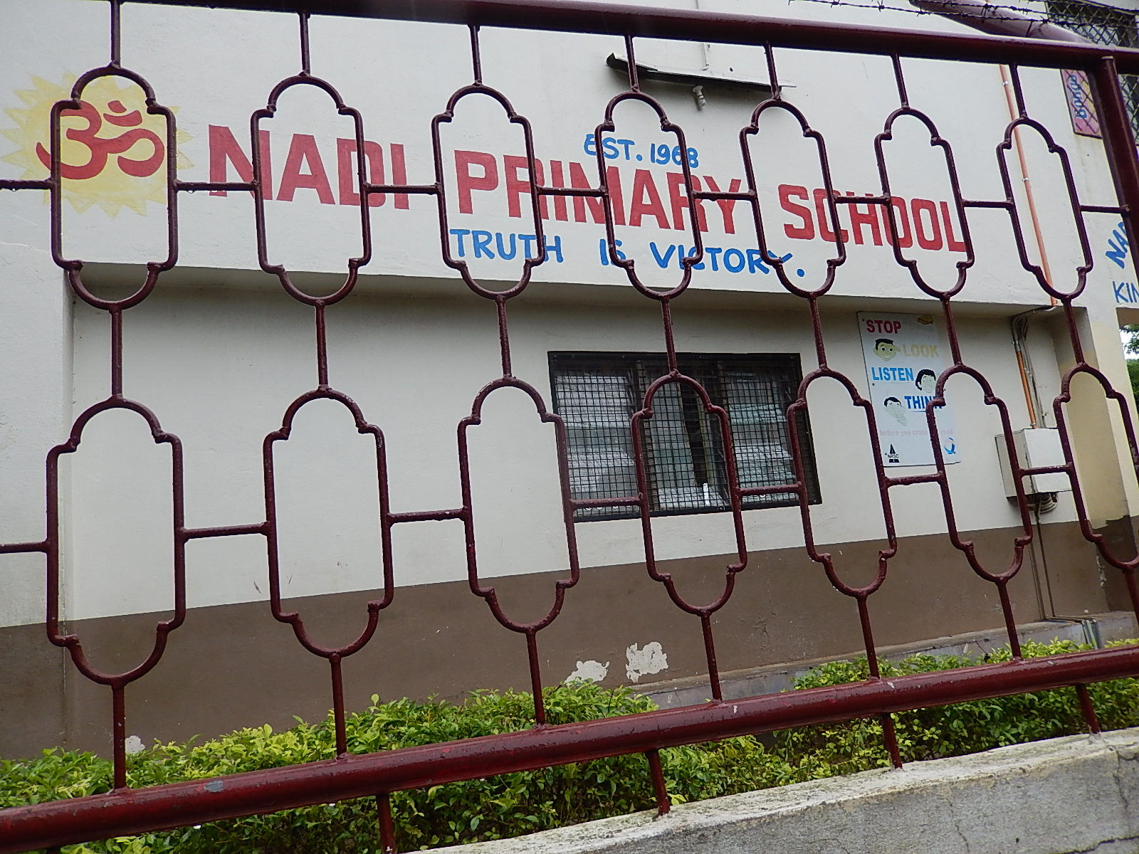 Schooling facility established by Nadi community Fiji